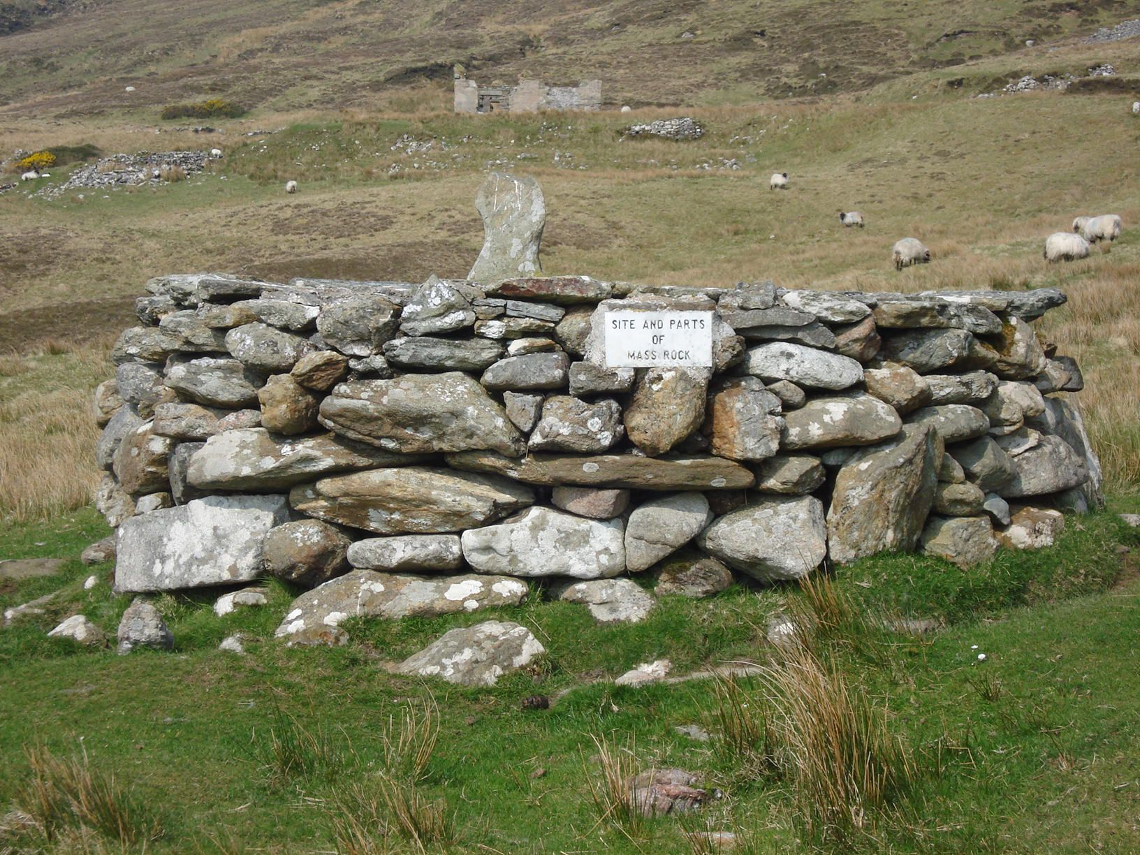 Mass rock near Keem Bay, Achill Island.jpg